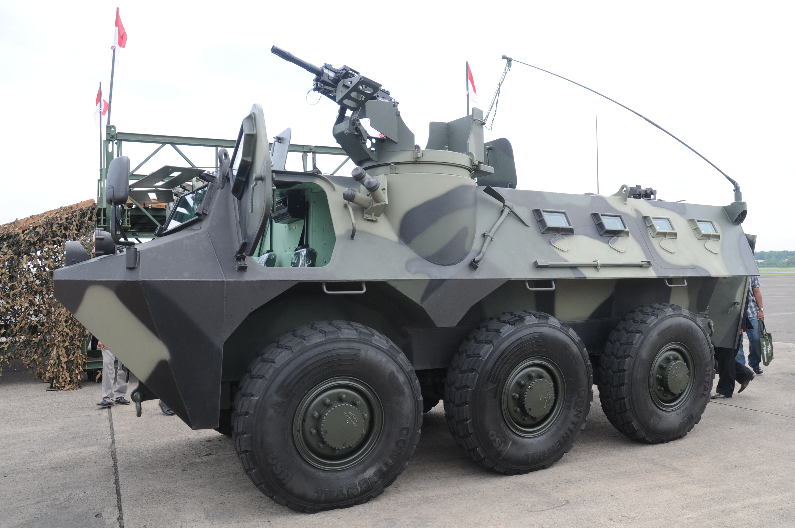 Side (left) of the Pindad Panser Anoa